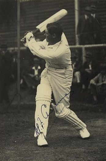 Autographed photograph of the England Test cricketer, Percy Chapman, 1928. Cropped from Commons image.